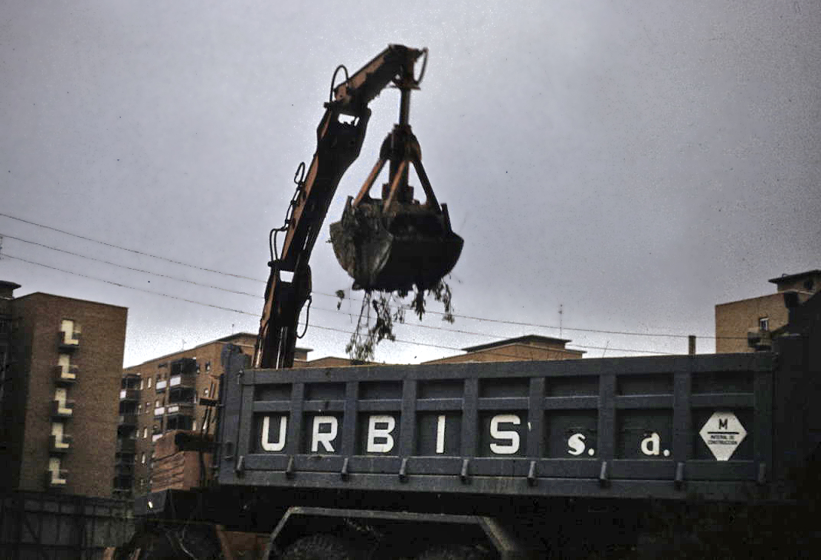 Works in the Moratalaz park. Madrid, Spain